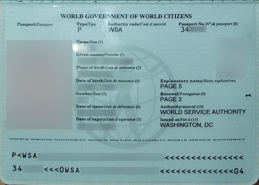 Data page of a World Passport issued in Washington D.C. in 2010.